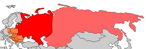 Influence Russia in Europe